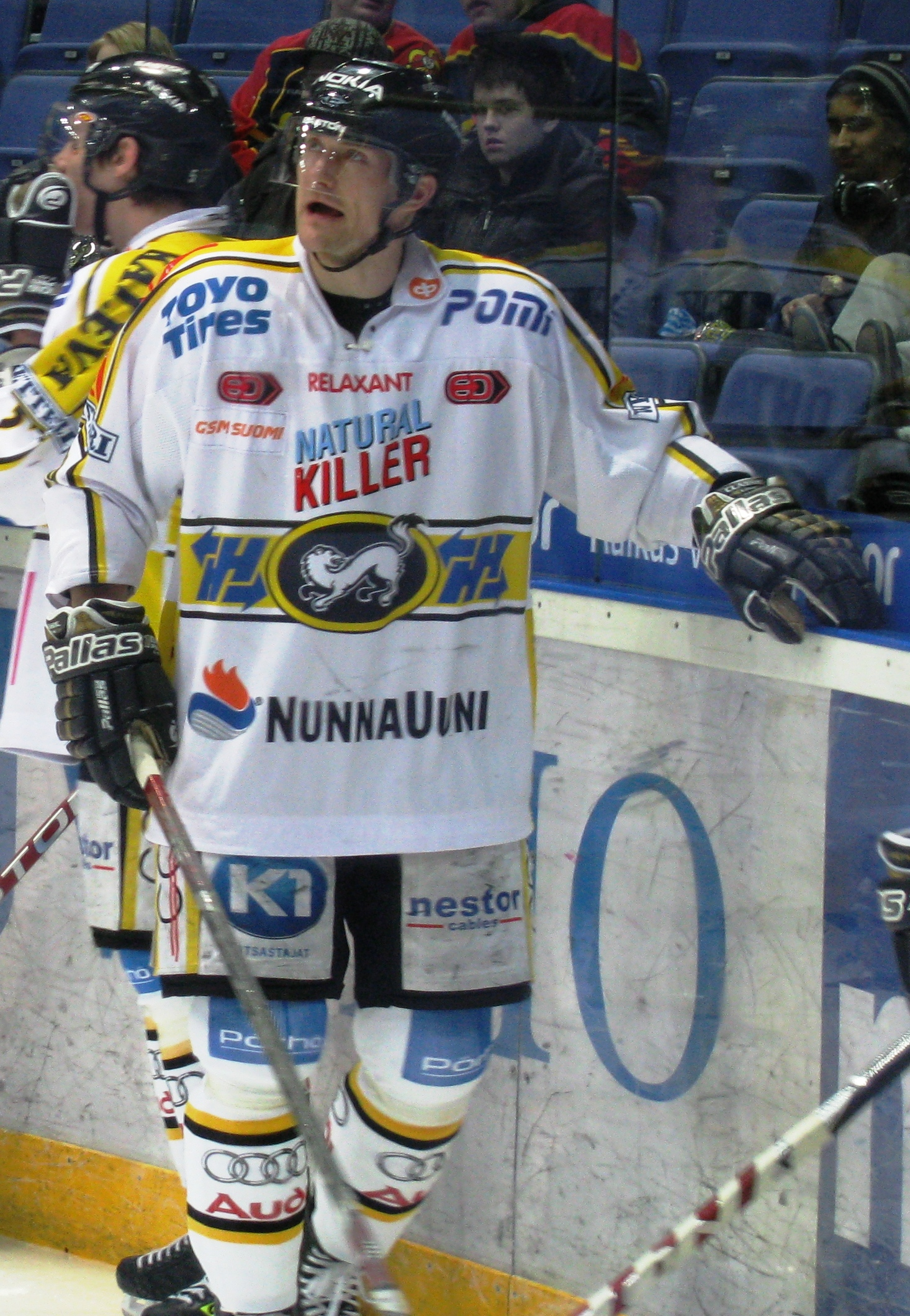 Vesa Viitakoski of Kärpät